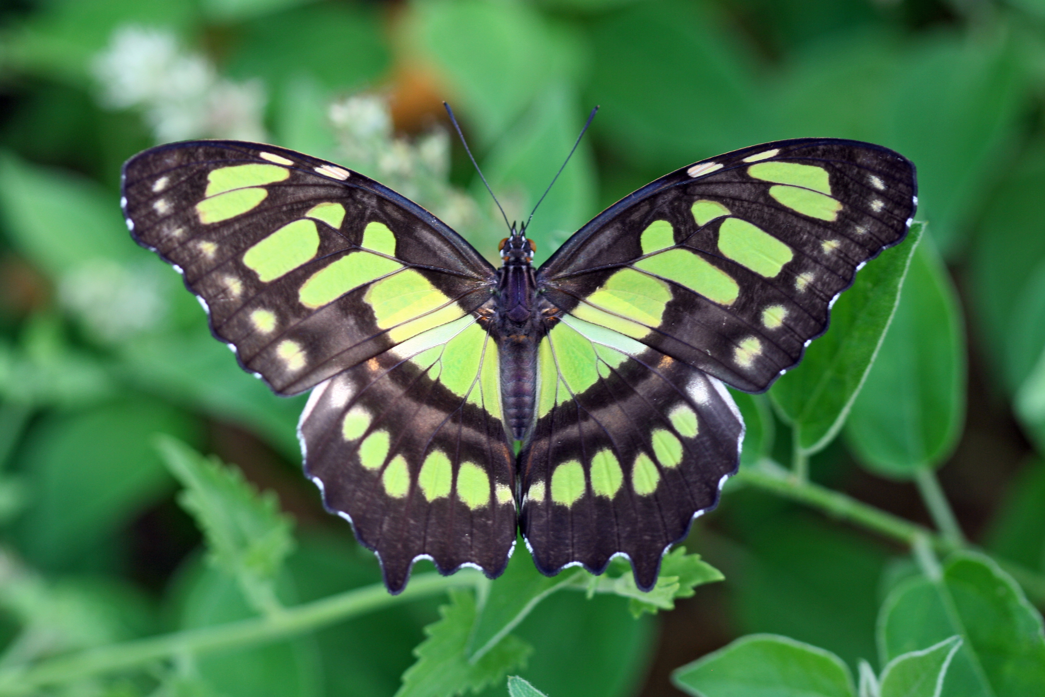 One of two Malachites spotted at the Hidalgo Pumphouse today. Other individual was much older.